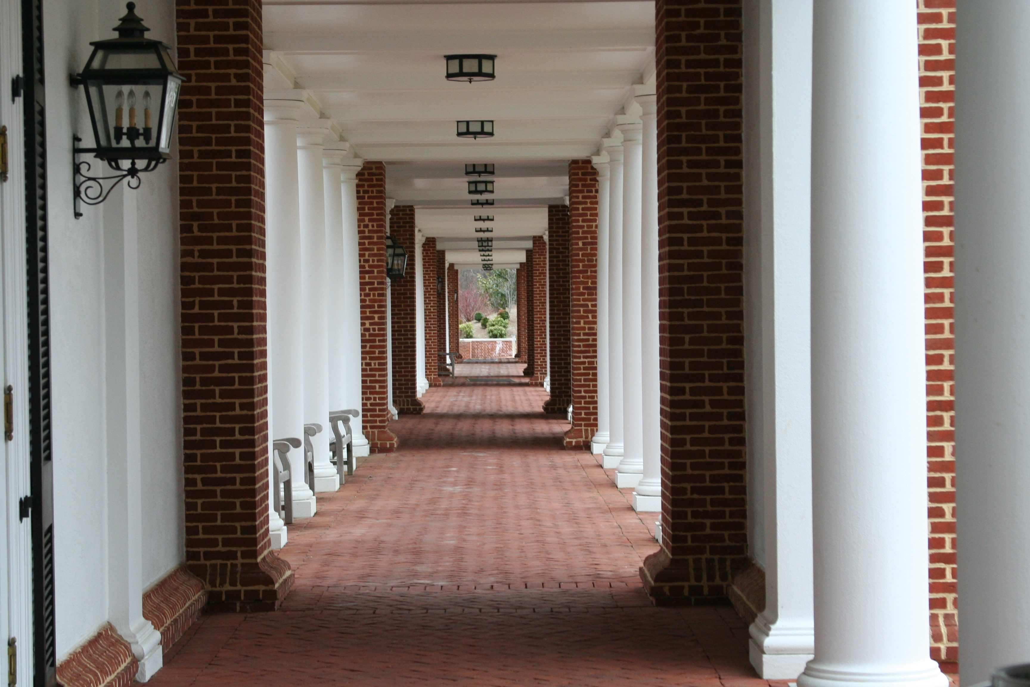 Darden School (Business School) at the University of Virginia